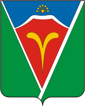 Ishimbai (Bashkortostan), coat of arms